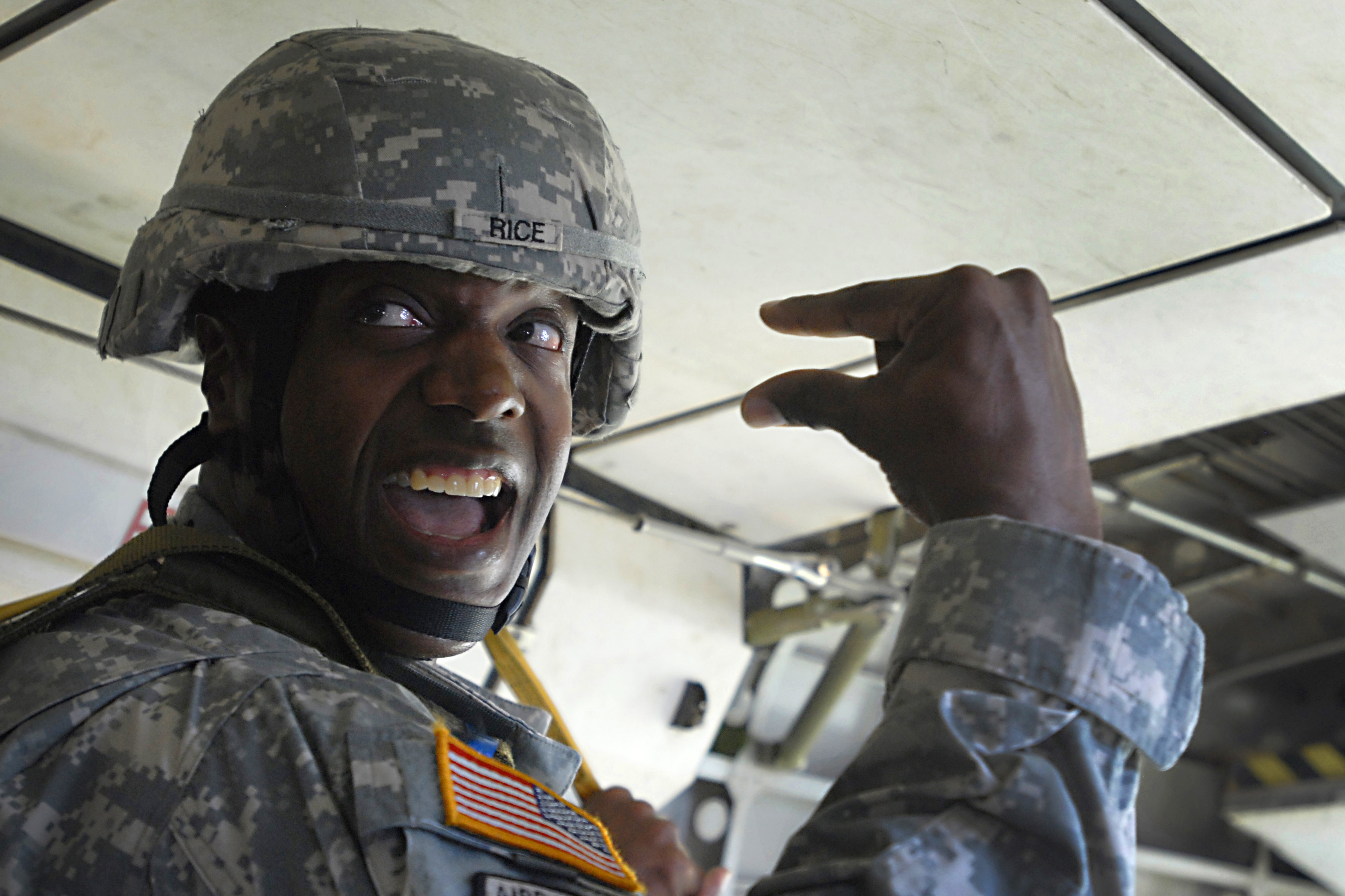 U.S. Army Master Sgt. Sean Rice gives the hand signal for "30 seconds" during an airborne operation in a Casa 212 aircraft over St. Mere Eglise drop zone at Fort Bragg, North Carolina, on August 2, 2011. The operation was part of the 2011 Rigger Rodeo competition to decide the yearÃ­s best parachute rigger in the U.S. Armed Forces. Rice is an operations sergeant major assigned to the 82nd Sustainment Brigade.